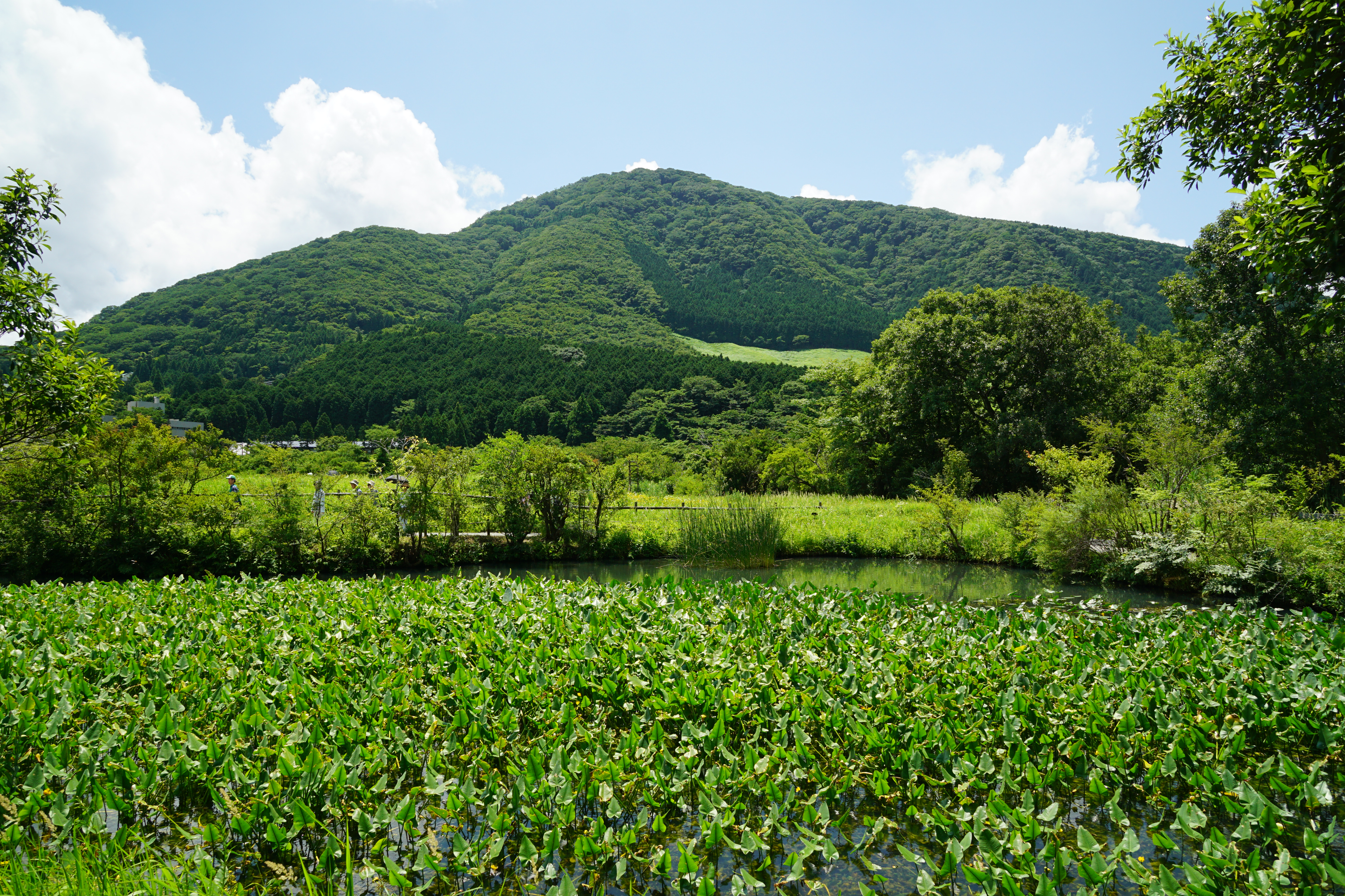 Hakone Botanical Garden of Wetlands in Hakone, Kanagawa prefecture, Japan